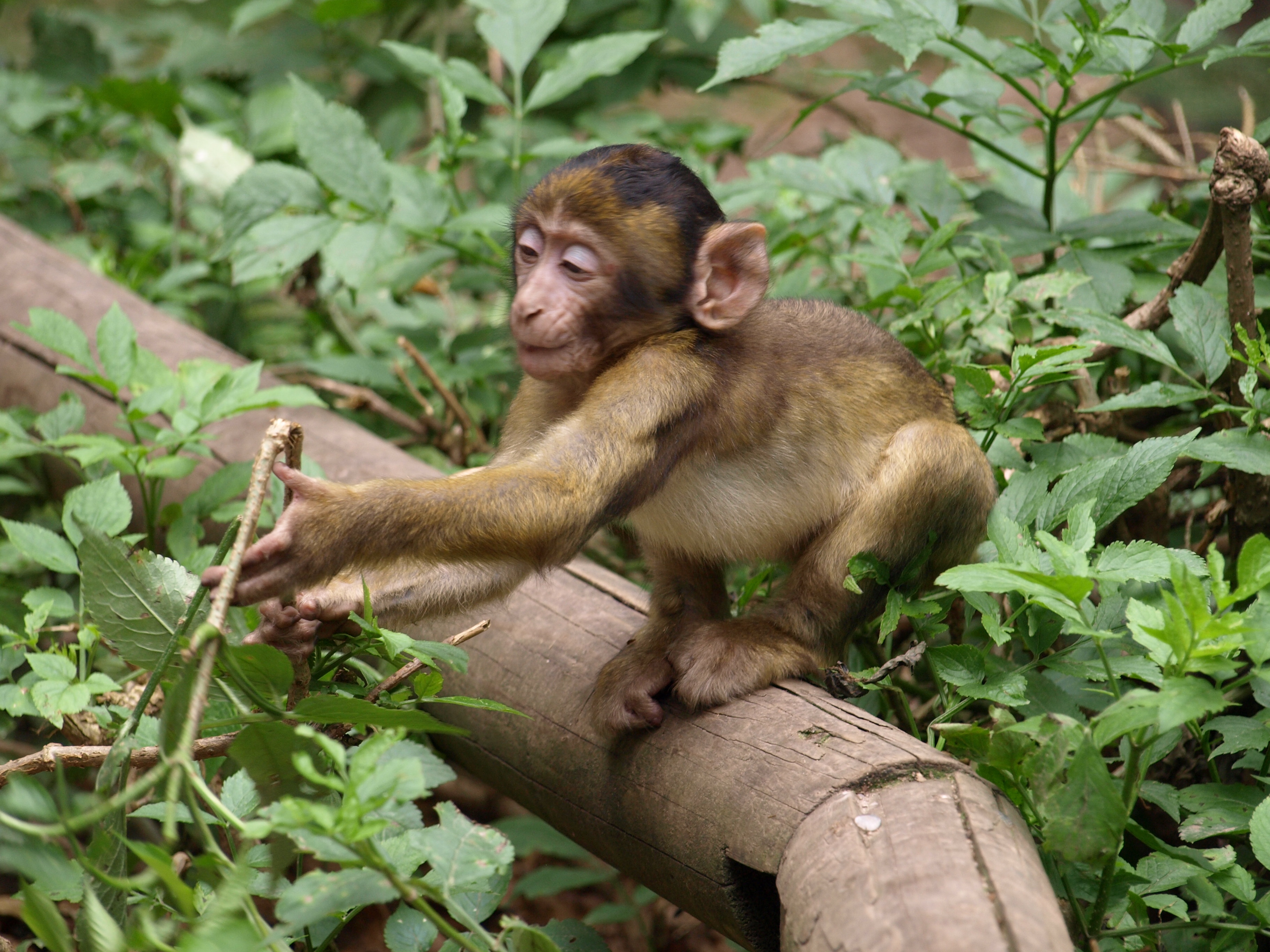 Baby monkey at Montagne Des Singes, Alsace